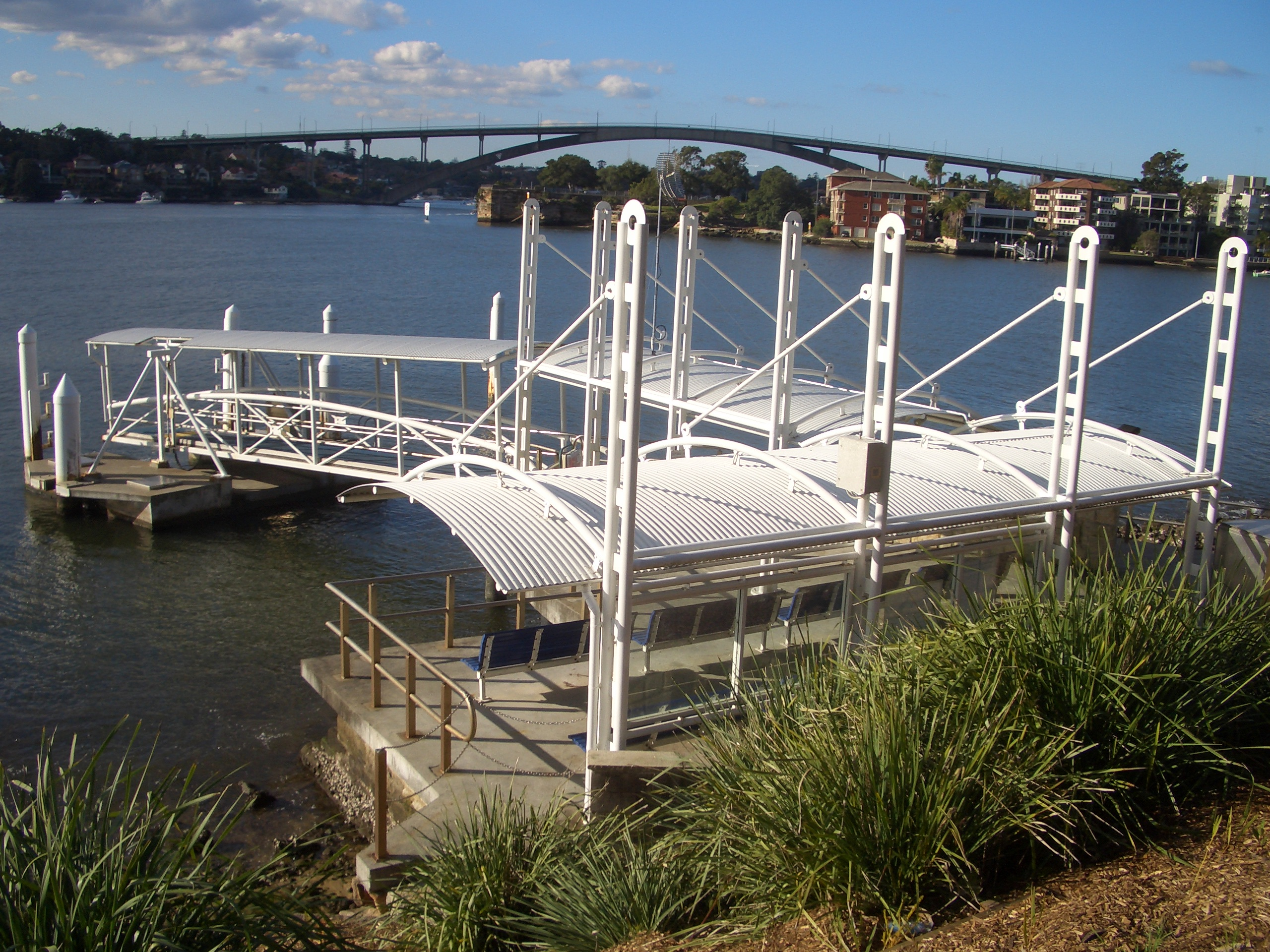 Chiswick Ferry Wharf, Parramatta River, Sydney, Gladesville Bridge in background.